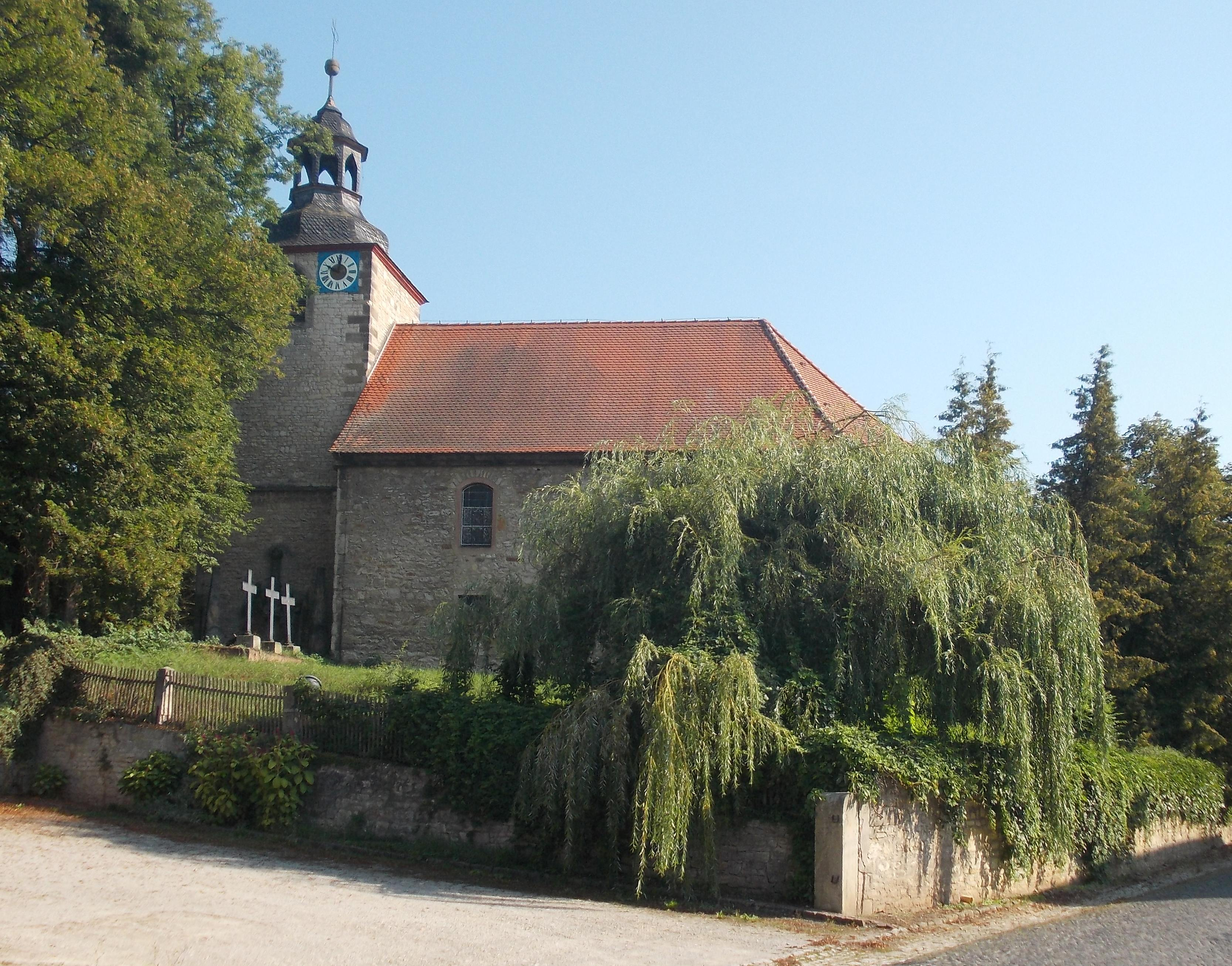 Burgholzhausen church (Eckartsberga, district: Burgenlandkreis, Saxony-Anhalt)